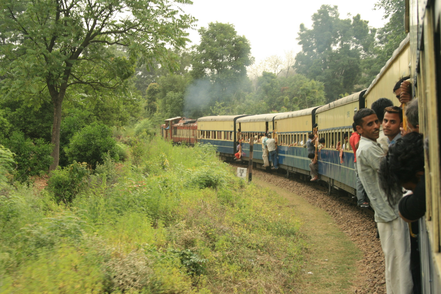 Pathankot - Baijnath train (3PBJ)